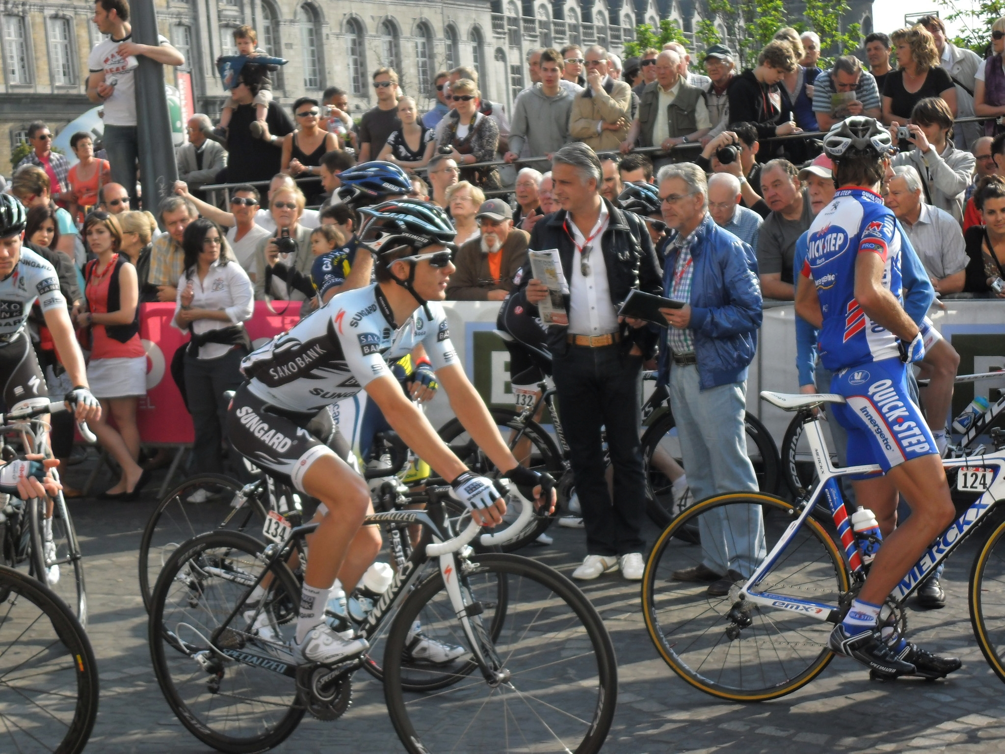 Rafal Majka on Liège-Bastogne-Liège 2011 start line